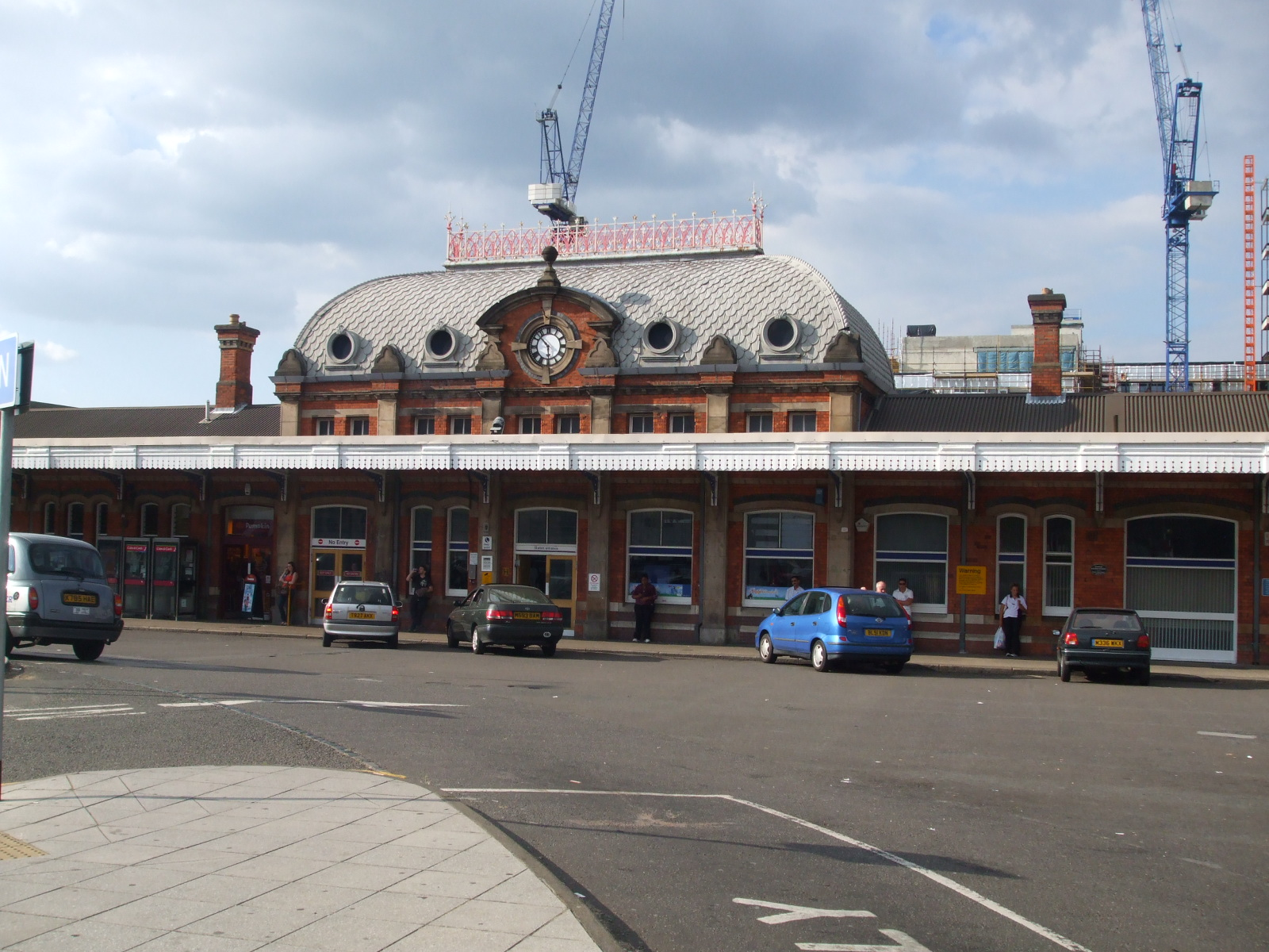 Slough railway station main entrance